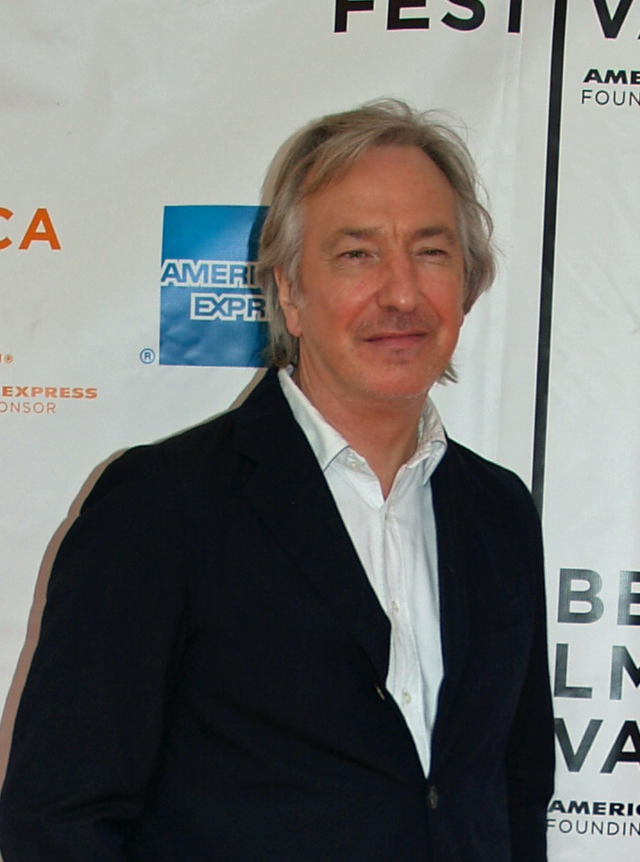 Alan Rickman at the 2007 Tribeca Film Festival